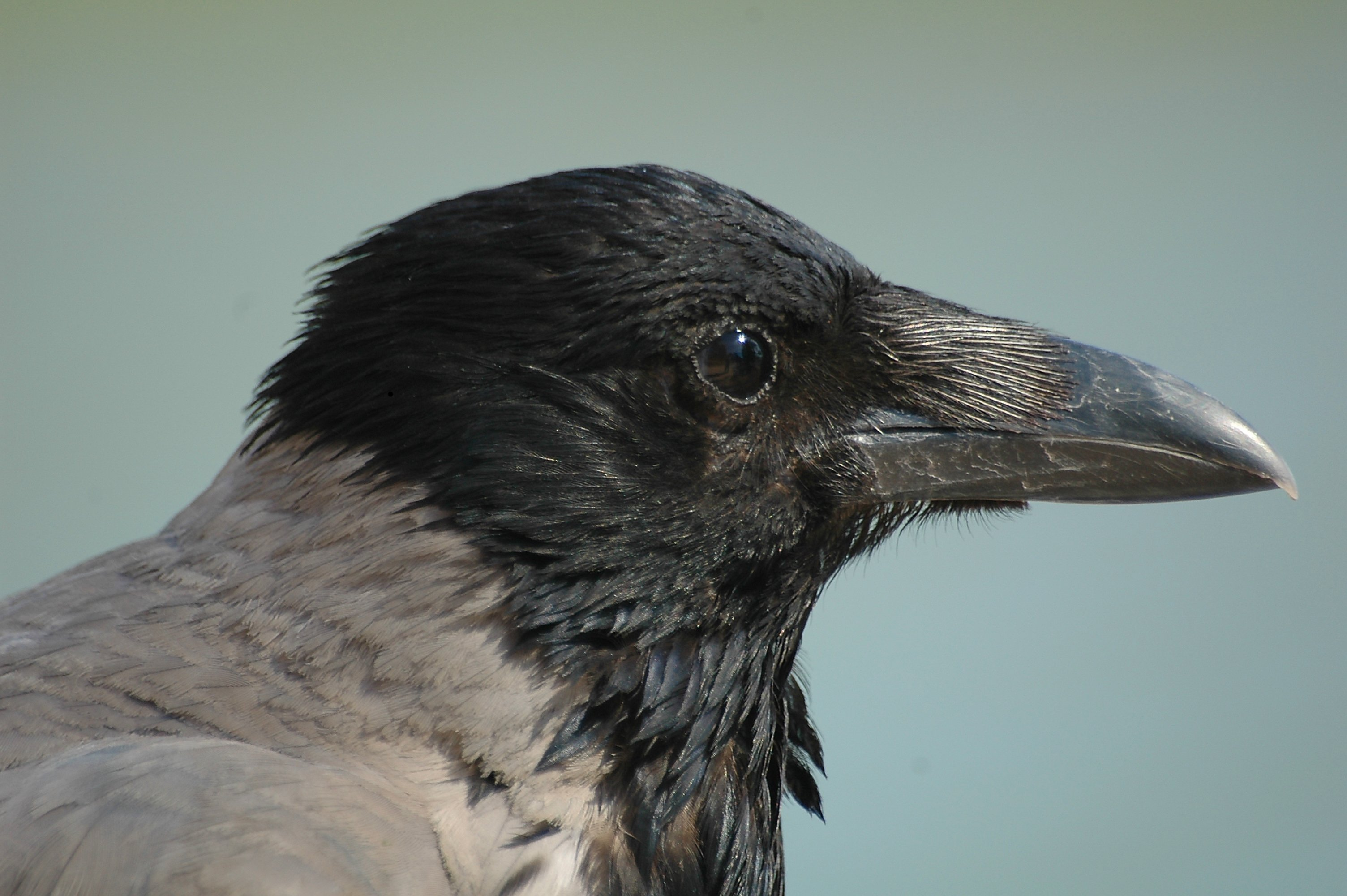 A hooded crow (Corvus cornix) on a park close to Helsinki, Finland.